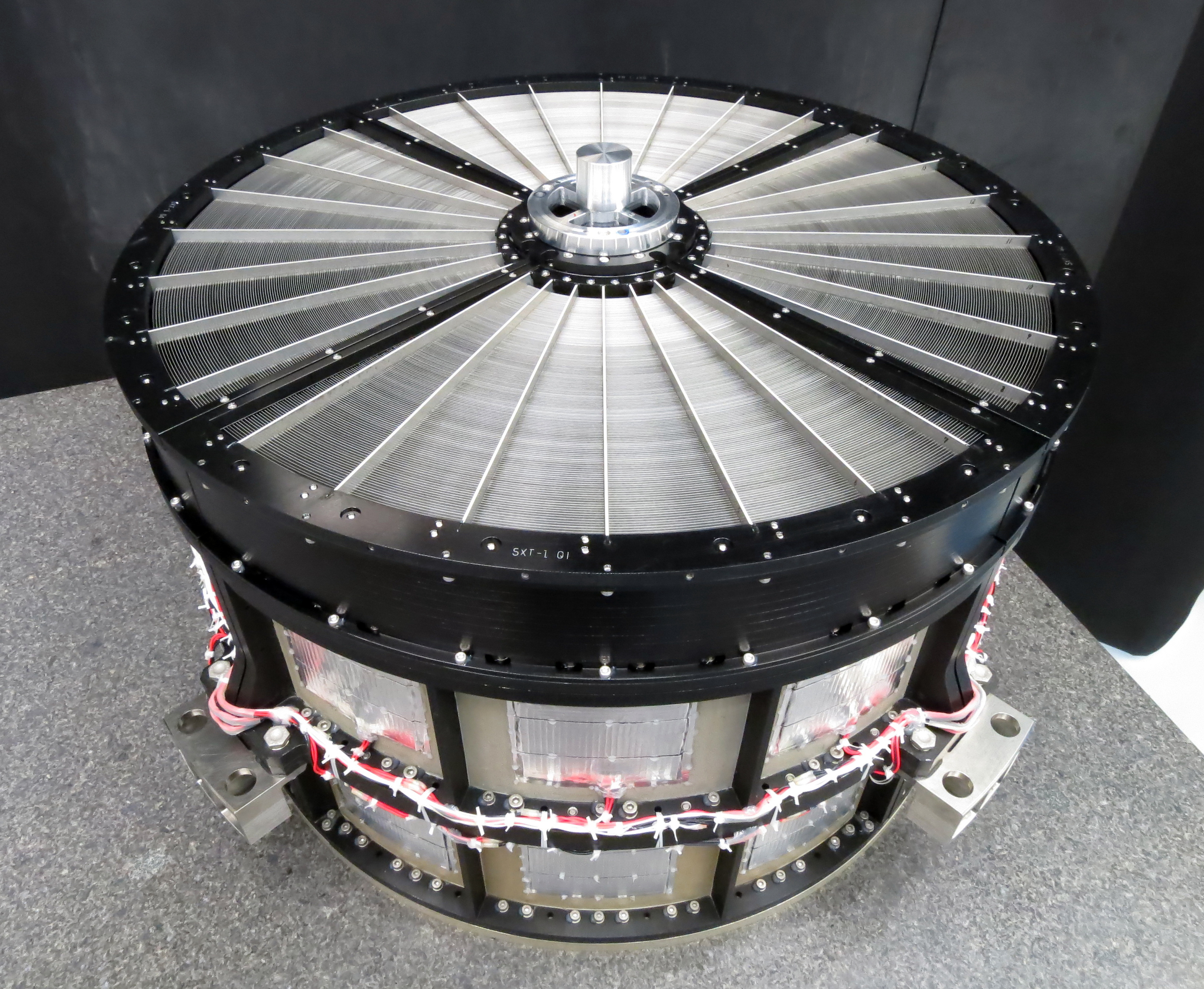 The Goddard team provided identical mirror assemblies for both of the Soft X-ray Telescopes aboard ASTRO-H. Each is 17.7 inches (45 centimeters) across and contains 1,624 precisely aligned aluminum mirror segments arranged in 203 concentric shells.